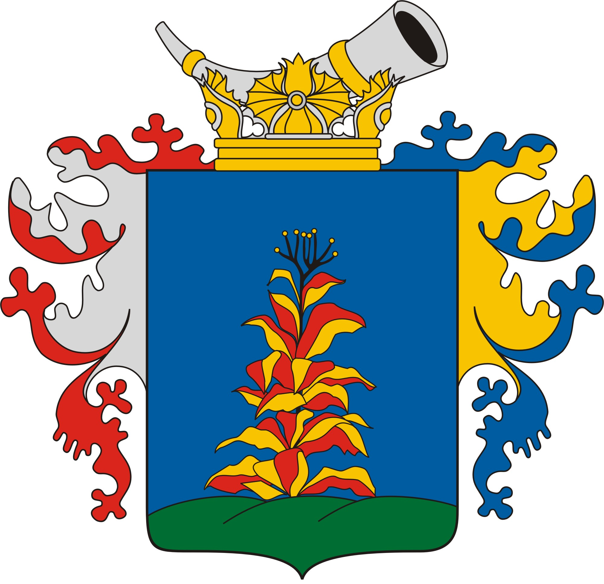 Coat of arms of Királyhegyes, Hungary